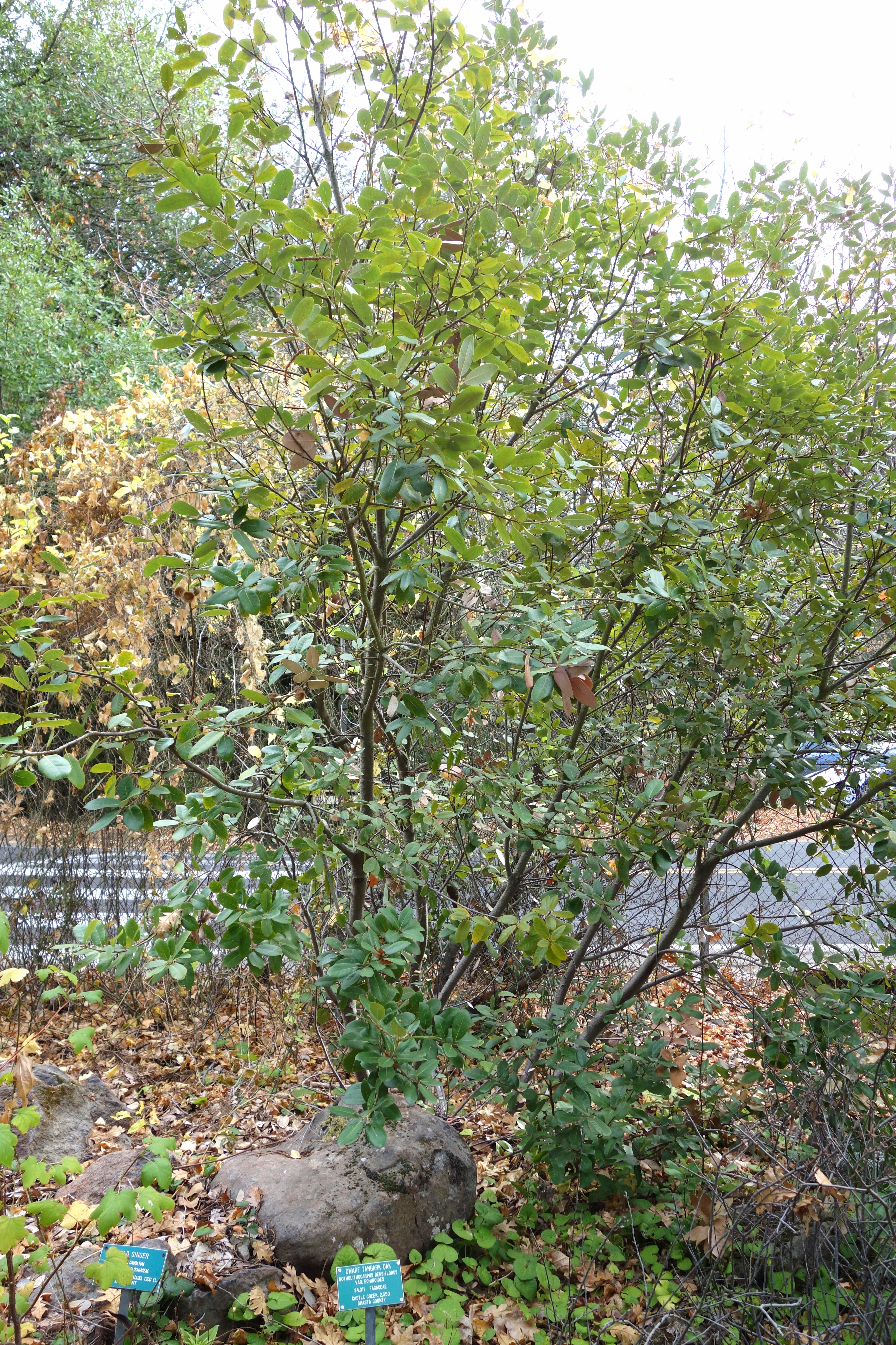 Notholithocarpus densiflorus var. echinoides — Tanbark oak. Botanical specimen in the Regional Parks Botanic Garden, Berkeley Hills, California.